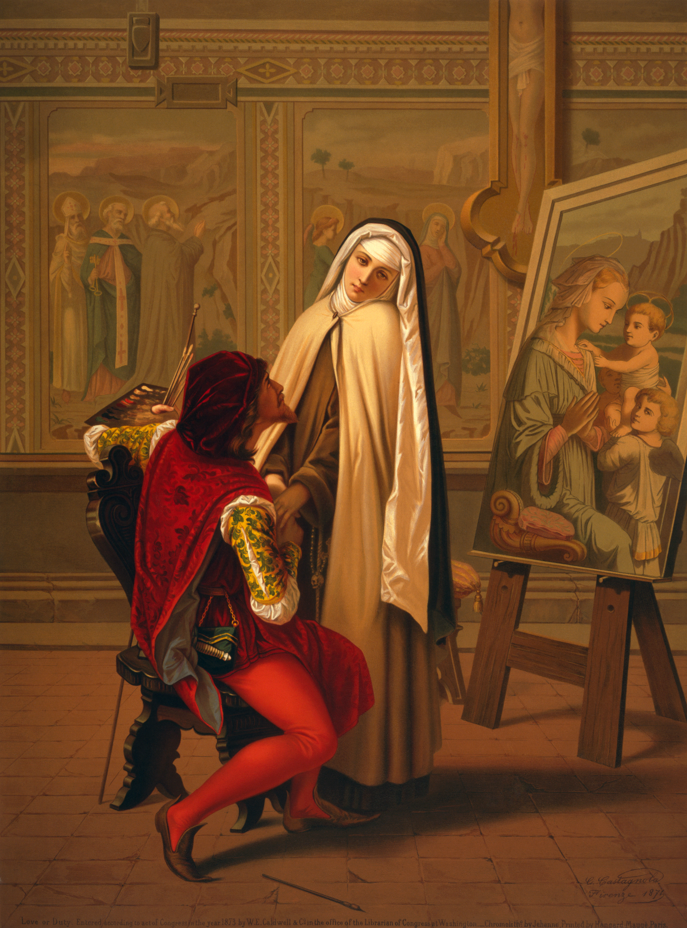 "Love or Duty" chromolithograph of a painter and a nun; published in Paris by Hangard-Mangué